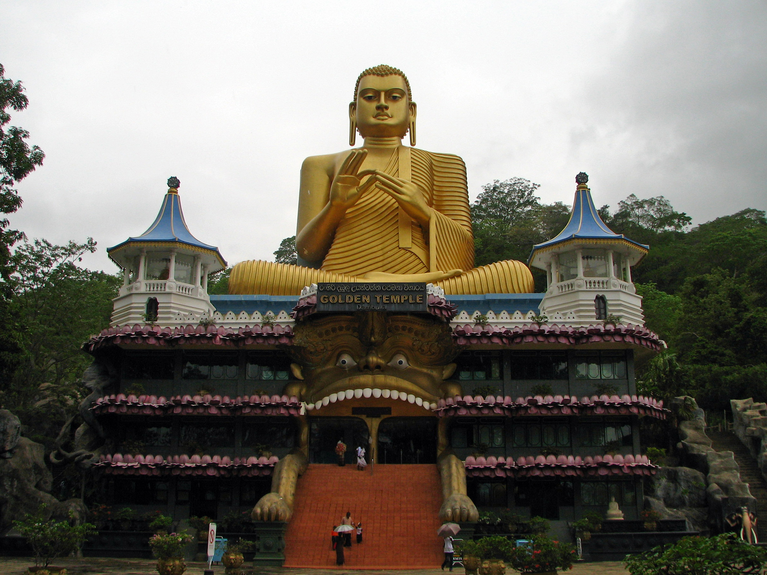 Gilden Buddha atop the touristy temple at Badulla.